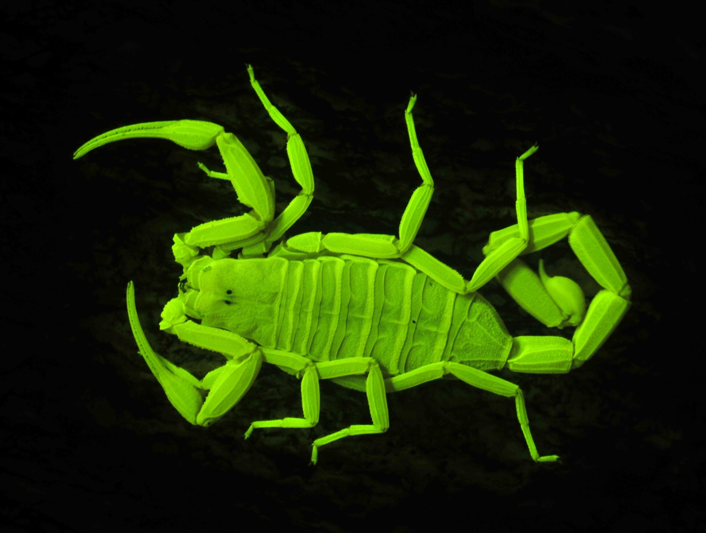 Arizona bark scorpion, illuminated with UV light. Photographed in Tuscon, Arizona using a 395 nanometer UV light and an orange filter over the camera lens.